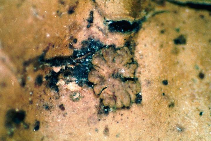 Peltigera leucophlebia (Nyl.) Gyeln., 1810 (photograph of a herbarium specimen taken through a dissecting microscope (x30) showing a cephalodium on the upper surface of a lobe) Growing in moss around boggy depression near Iron Bridge at Carp Creek, off Hogsback Road, 0.4 mile E of Junction W Burt Lake Road, Cheboygan County, Michigan, USA; collected and identified by Richard E. Riefner (No. 81-351, 29 Jun 1981); specimen is now in the Lichen Herbarium of the New York Botanical Garden.